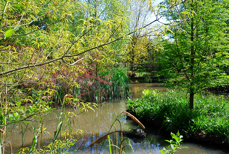 Bluebell Arboretum, England, in Spring, showing planting around pond.